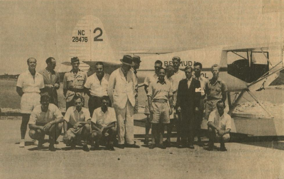 Photo of the Duke of Windsor visiting the Bermuda Flying School, on RAF Darrell's Island, Bermuda, on his way to becoming Governor of the Bahamas in 1940. Pictured with the Duke (in dark suit, near the right) are - Rear, from left: Duncan McMartin, the Duke's ADC, a staff officer, Bertram Work, Governor Sir Denis Bernard, a Fleet Air Arm Pilot from RNAS Boaz Island, Fenton Trimmingham, flying instructor Captain Ed Stafford, Mr B.U.S. Smith, the Duke, Royston Dodwell, and Allan (Smokey) Wingood. Kneeling: Jim Lang, Teddy Nicoll, James Whitecross, and Ronald Stemp.